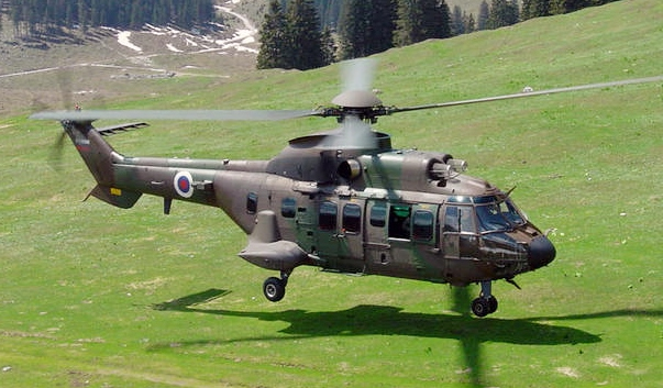 AS 532 Cougar of the Slovenian Air Force (cropped version of this file)